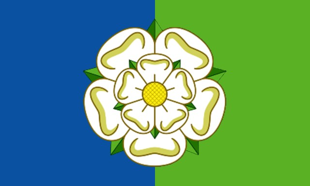 Flag of the East Riding of Yorkshire